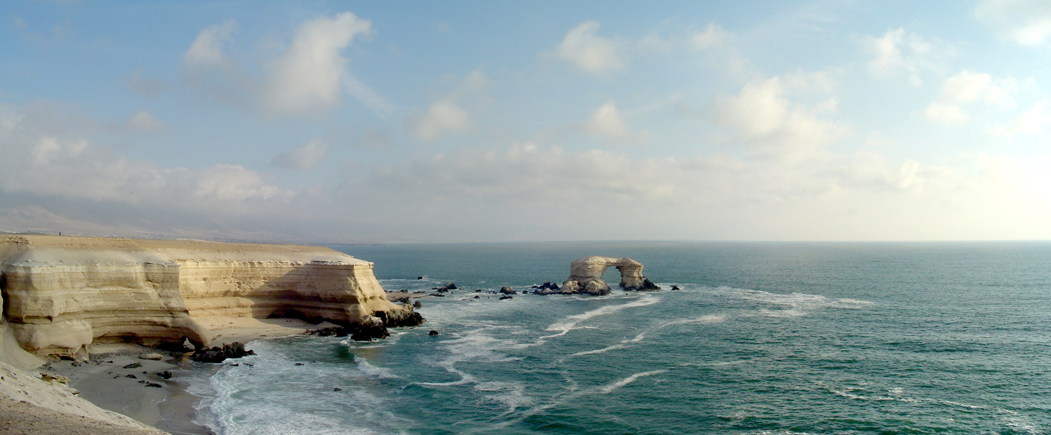 La Portada Natural Monument. Antofagasta, Chile.